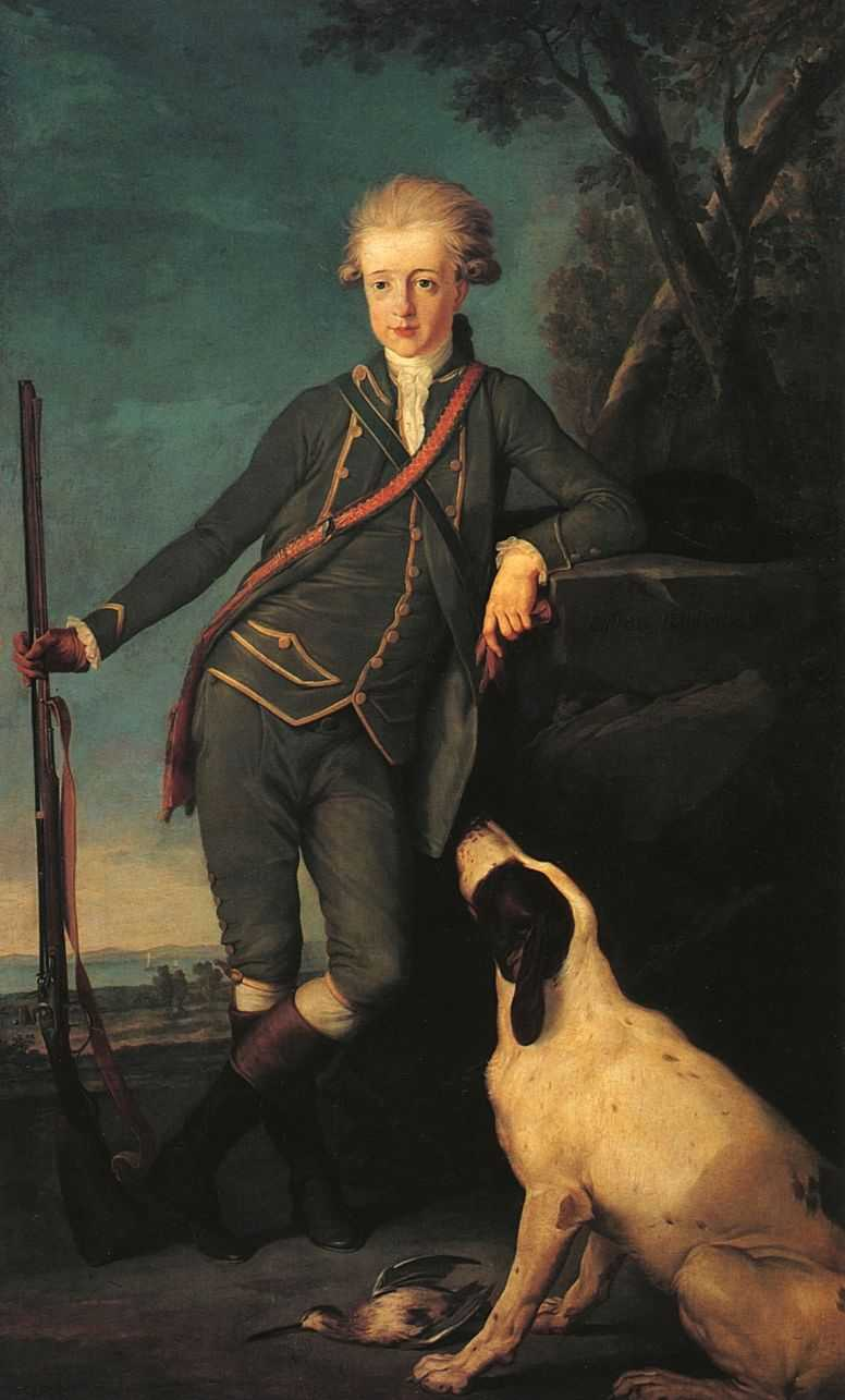 Portrait of Nikita Petrovich Panin (1770-1837)